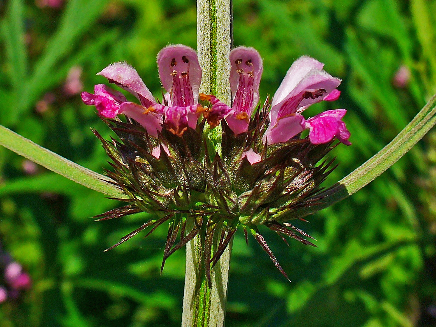 Leonurus sibiricus, Lamiaceae, Siberian Motherwort, inflorescence. The plant is used in homeopathy as remedy: Leonurus sibiricus (Leon-s.)